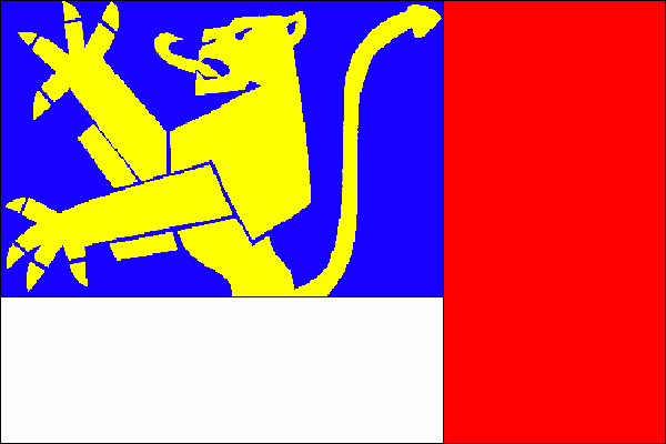 Municipal flag of Dražice village, Tábor District, Czech Republic.